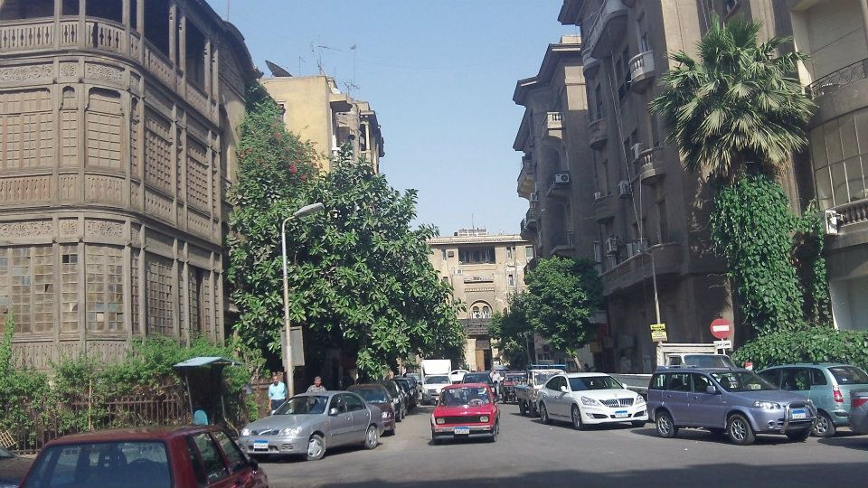 This shows a random street corner in garden city